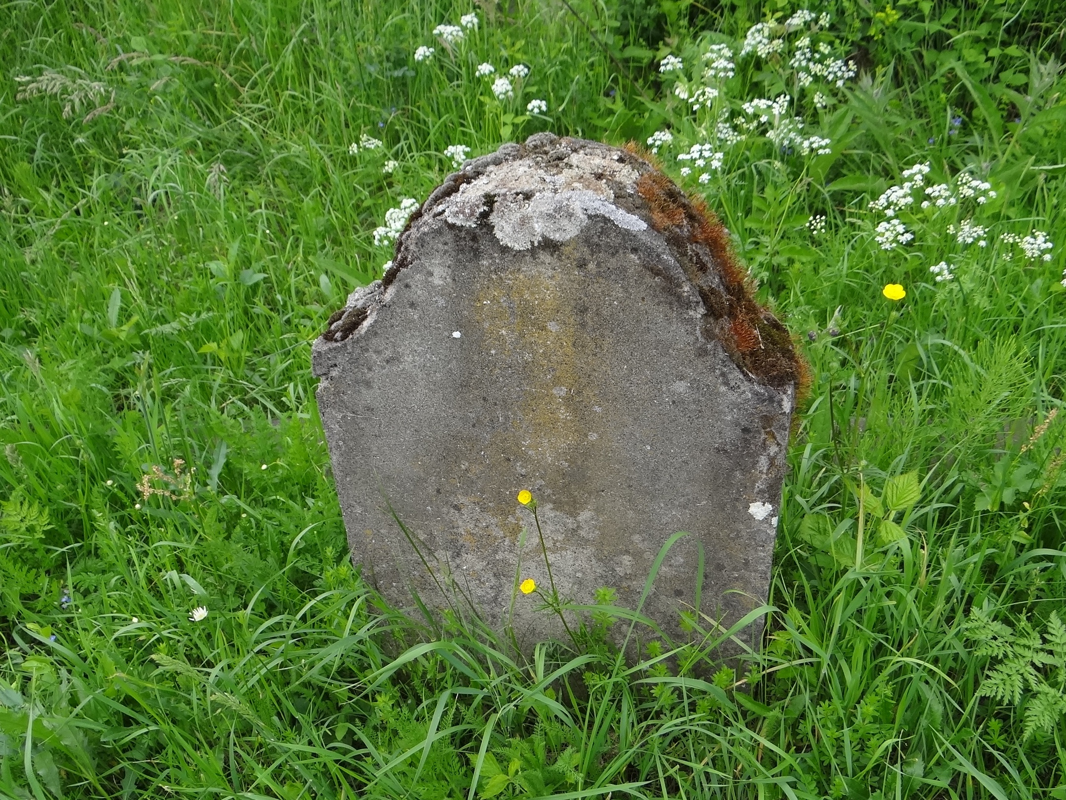 World War I Cemetery nr 132 in Bobowa